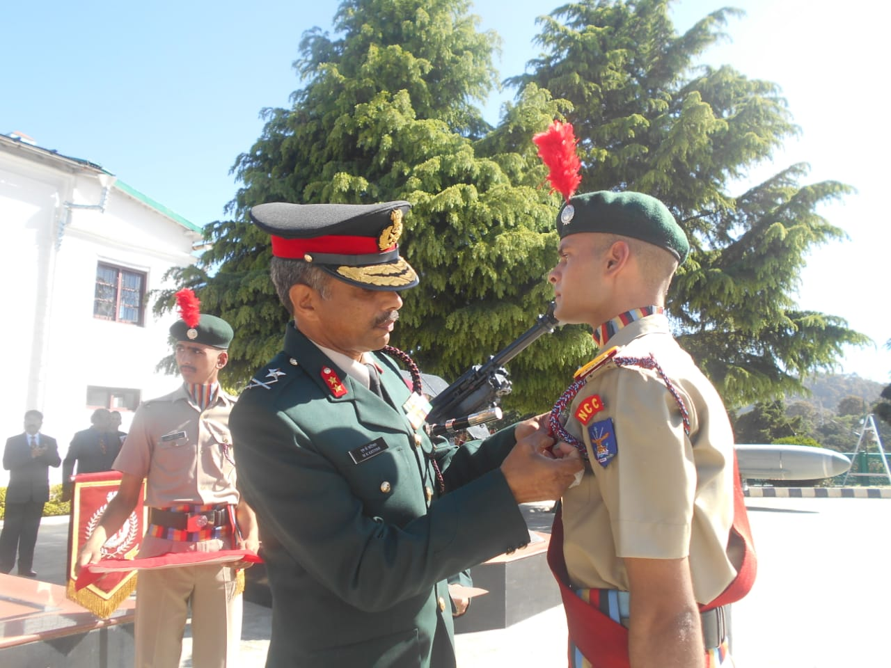 Cadet Akhilesh Goswami Captain of SSGK 2019-20